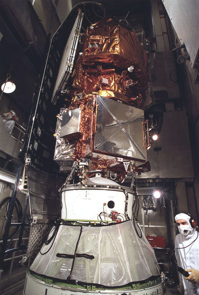 At Launch Complex 17 Pad A, Kernedy Space Center (KSC) workers are installing the payload fairing around the Extreme Ultraviolet Explorer (EUVE) mated to a Delta II rocket. The EUVE spacecraft is designed to study the extreme ultraviolet portion of the spectrum.